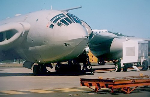 An RAF Handley Page Victor V-Bomber XM717, converted to the air-refuelling tanker role, refuels itself at the Civil Air Terminal, NAS Bermuda, circa 1985. XM717 took part in the first mission of Operation Black Buck during the 1982 Falklands War, and later took part in the first Gulf War.